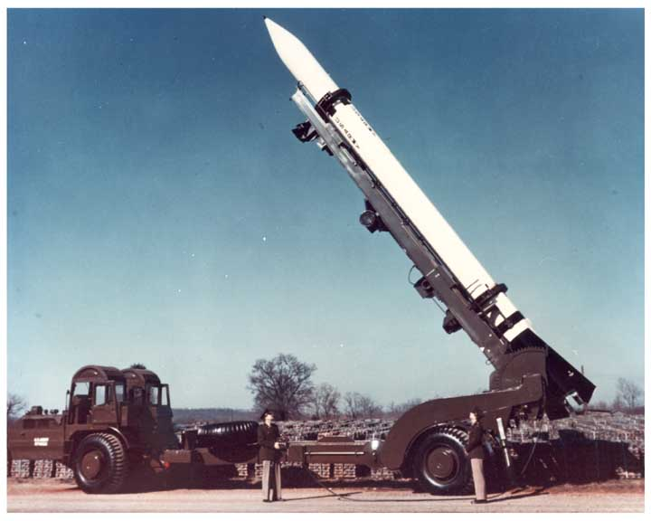 MGM-5 Corporal